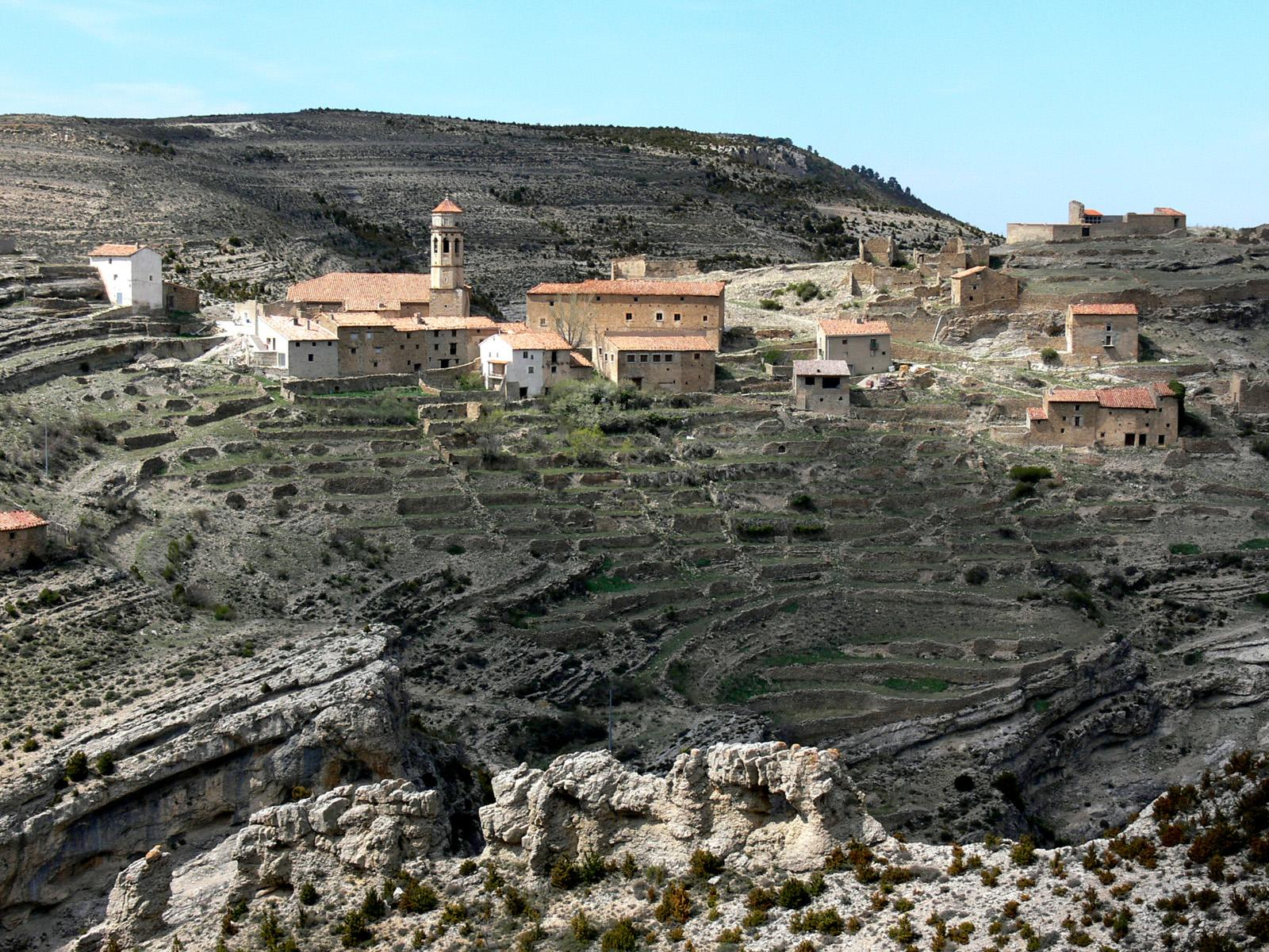 Cañada de Benatanduz, a town that has been practically abandoned in Teruel, Spain.